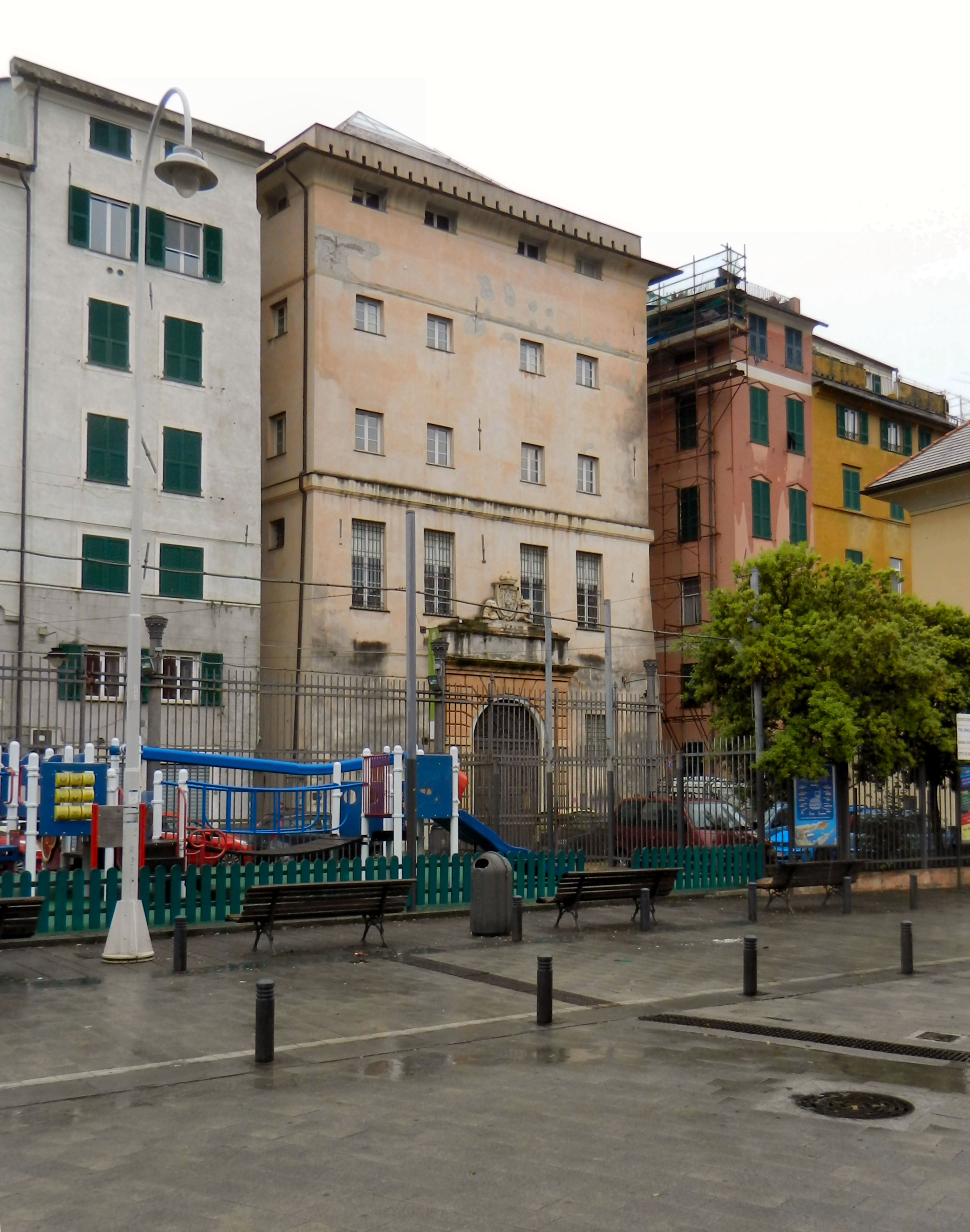 Genoa, Italy, quarter of Molo, ancient wheat warehouse, called "Warehouse of Abundance" This is a photo of a monument which is part of cultural heritage of Italy.